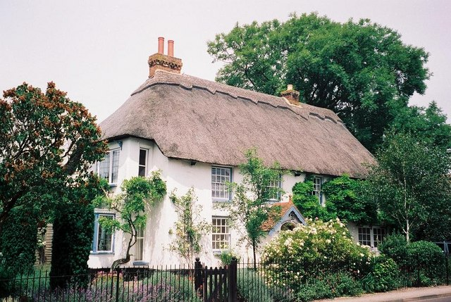 Prospect House, 113 Wareham Road, Lytchett Matravers, Dorset